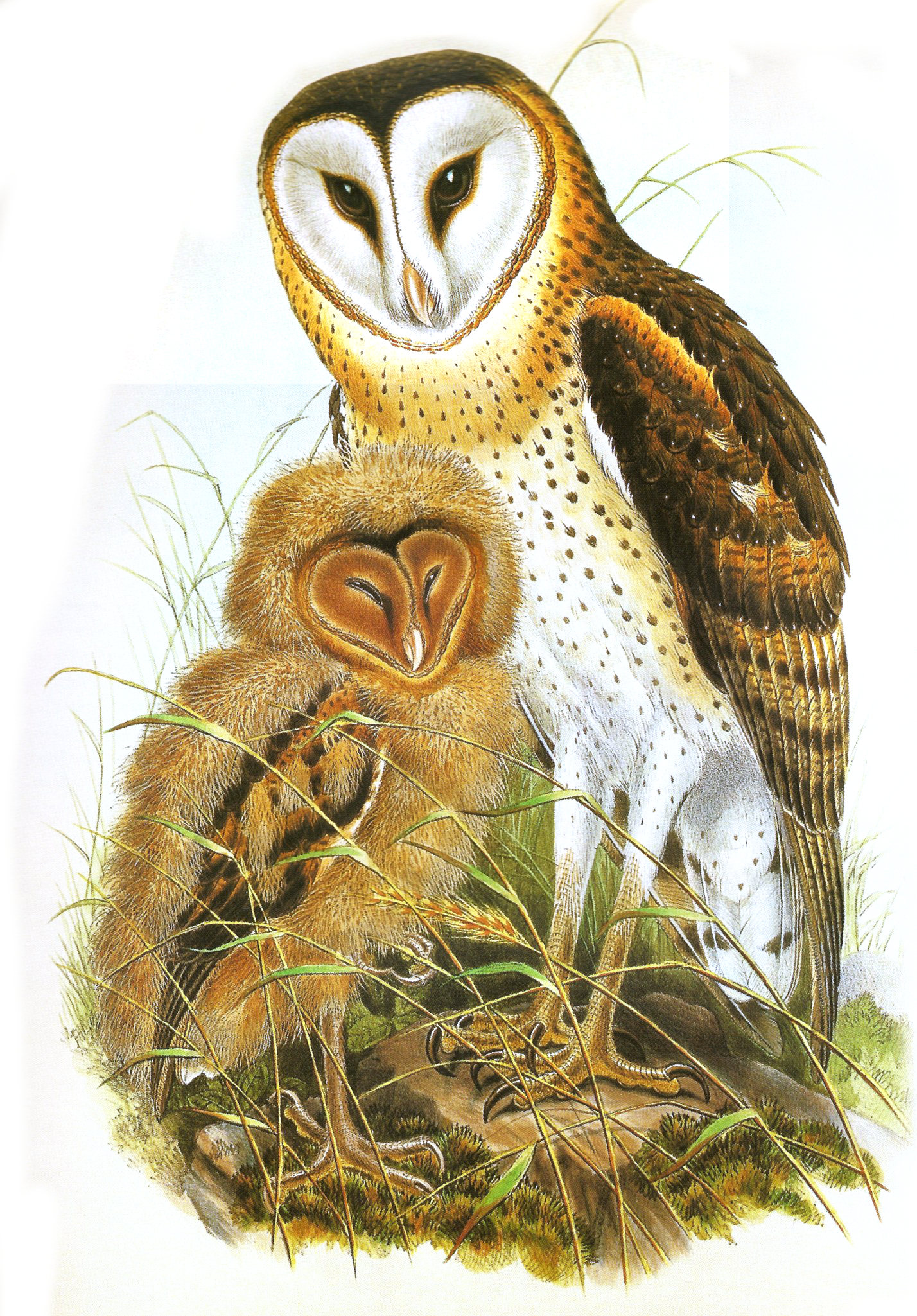 Grass Owl Strix candida Tickell, 1833, = Tyto longimembris (Jerdon, 1839)